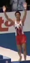 Kenzō Shirai at World championships 2013 in Antwerp, Vault final